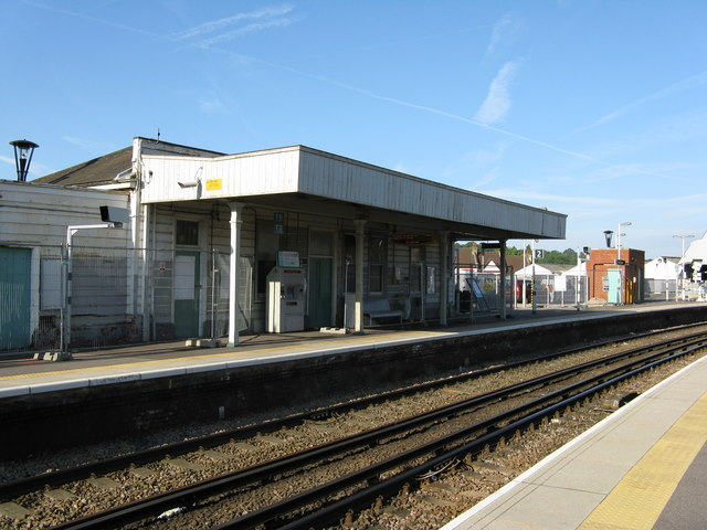 Smitham station Taken from the Up side platform. According to notices posted at the station, the Down side buildings seen here are due for early demolition.